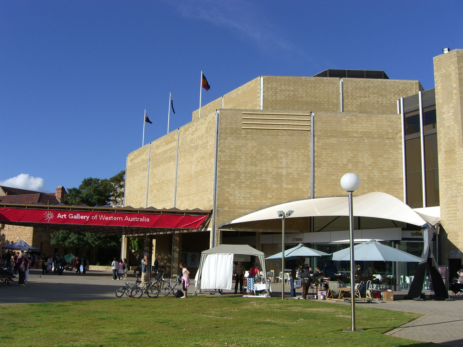 Exterior of The Art Gallery of Western Australia